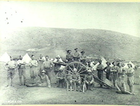 AWM caption : "SOUTH AFRICA. GROUP PORTRAIT OF MEMBERS OF C SECTION, ELSWICK BATTERY, WITH ONE OF THEIR 12 AND 1/2 POUNDER QUICK FIRING ARTILLERY PIECES. THIS BRITISH UNIT WAS ONE OF TWO ORGANIZED VOLUNTEER ARTILLERY COMPANIES TO SERVE IN THE WAR AGAINST THE BOERS, AND COMPRISED MEN FROM THE ELSWICK WORKS." Comment : note 3 cartridge cases and 2 shells standing in front.